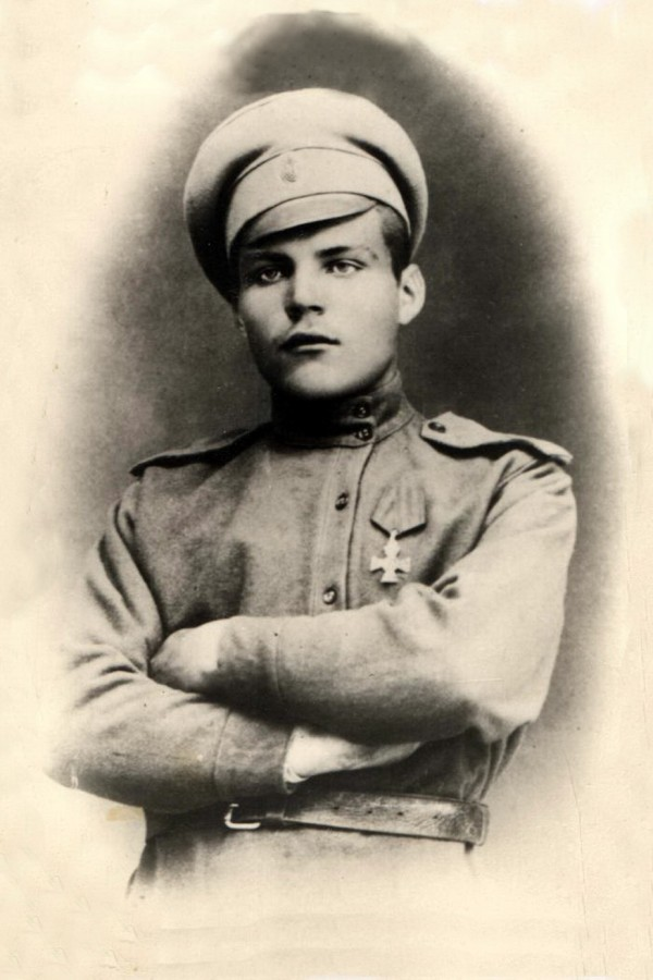 Soviet Marshal of the Soviet Union Rodion Malinovsky during or before ww1